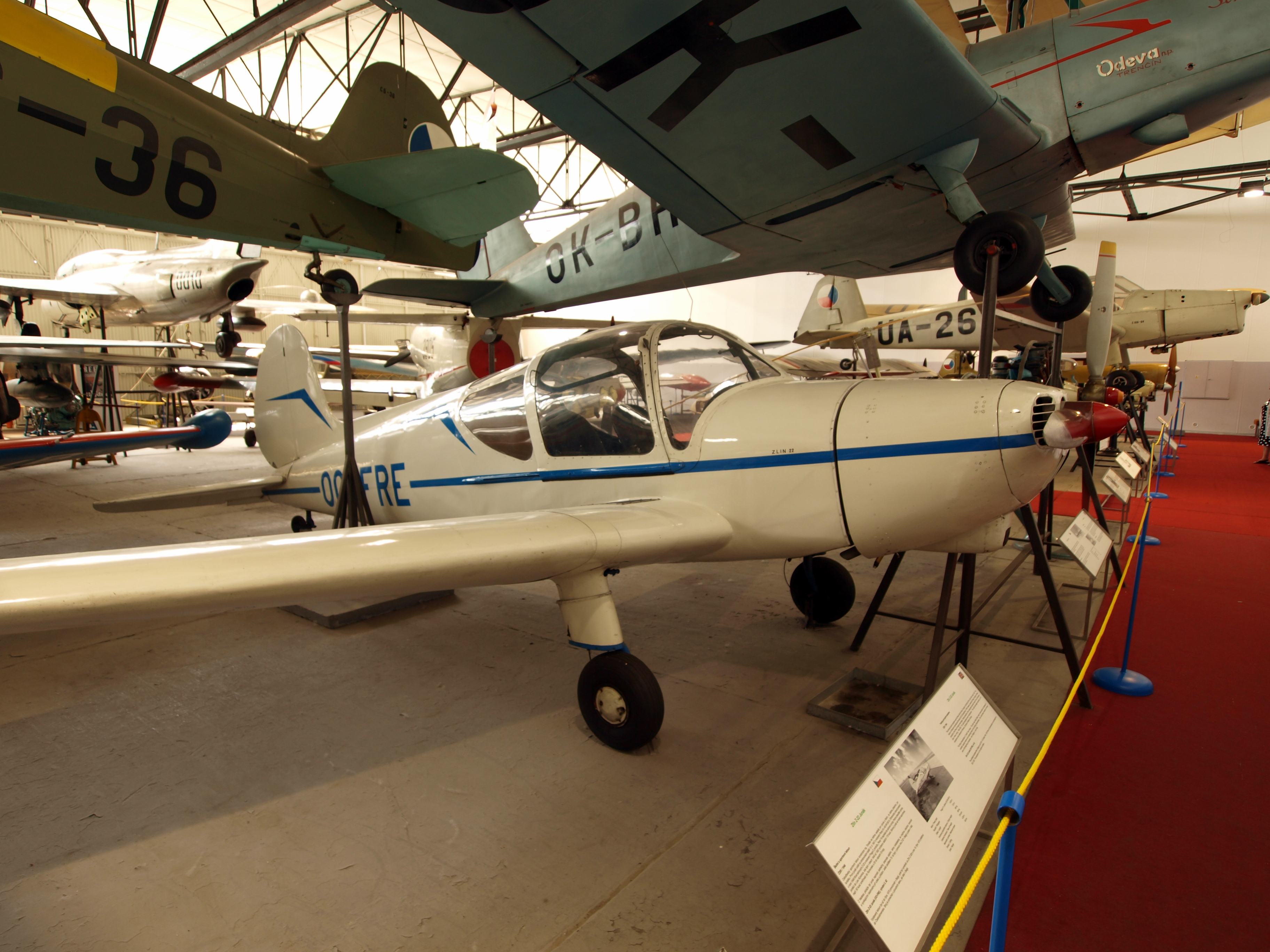 Zlin Z-22 Junák (OO-FRE). Photographed whitout tripod (this was not allowed!).